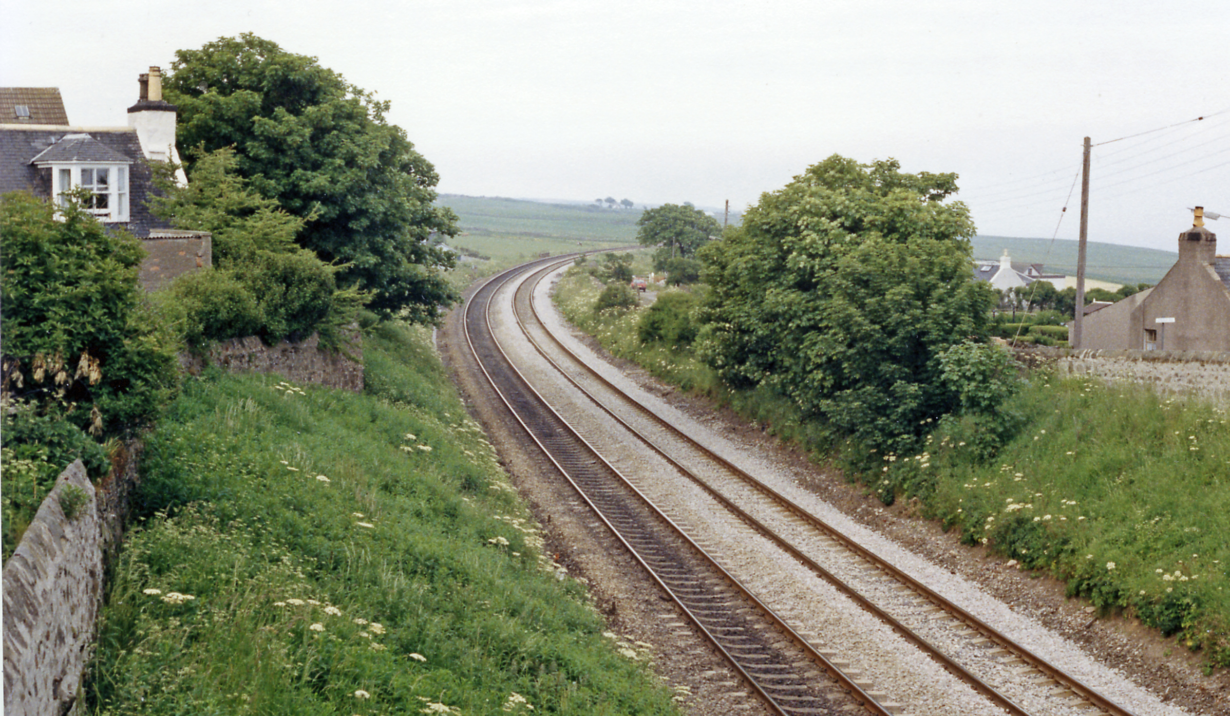 Site of Cove Bay station, 1988. View NE up the coast, towards Aberdeen: ex-Caledonian main line from Perth, Glasgow etc., over which the ex-NBR ran its trains from Dundee and Edinburgh. The station was closed to passengers from 11/6/56, to goods from 28/10/63.